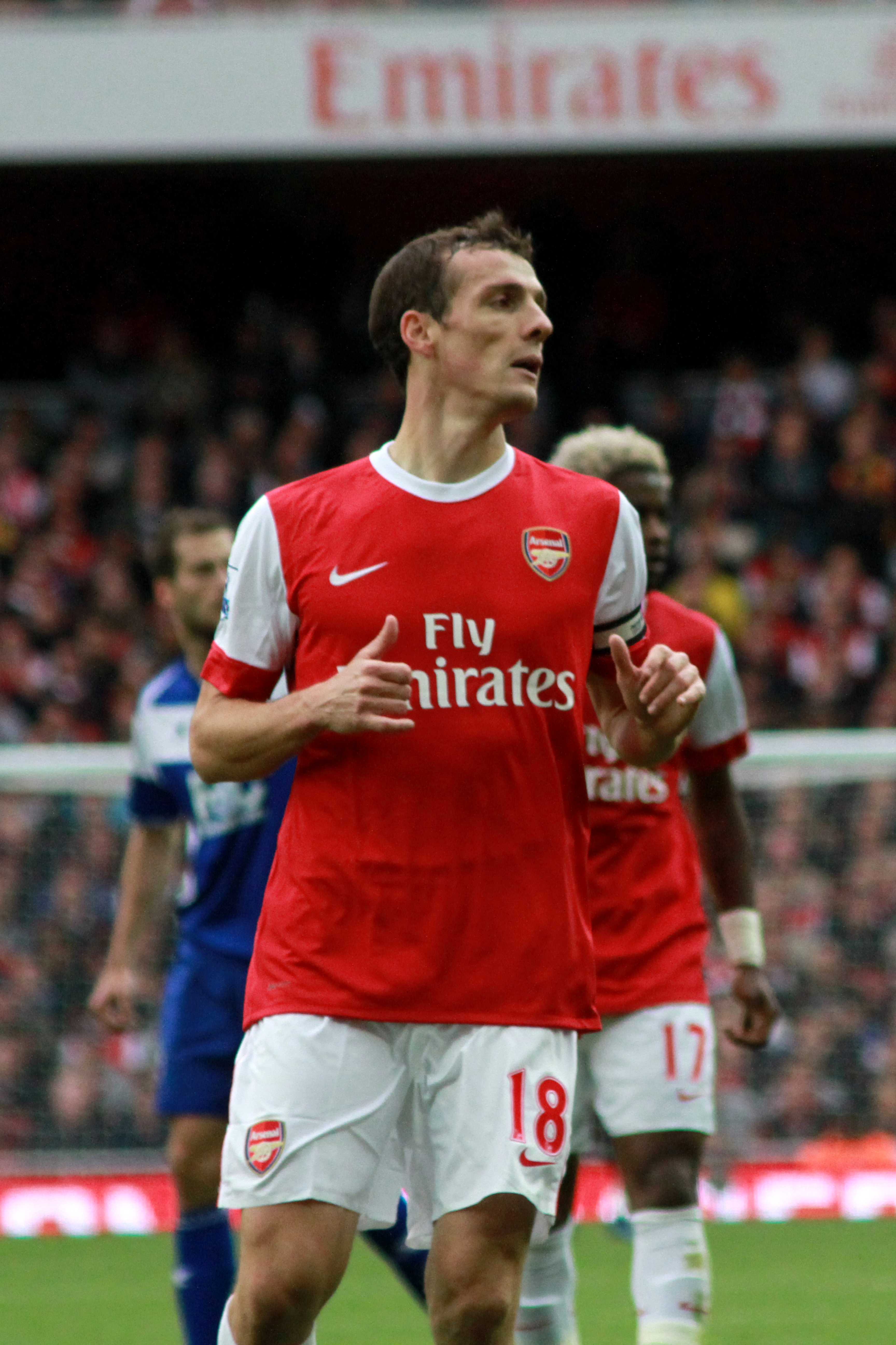 Arsenal v Birmingham City The Emirates 16 October 2010 (2-1)